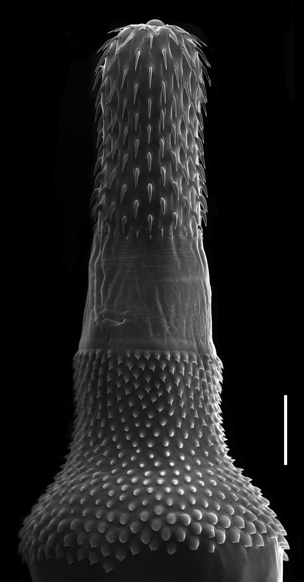 Proboscis, neck and trunk spines of a juvenile Bolbosoma turbinella. Bar is 200 um.